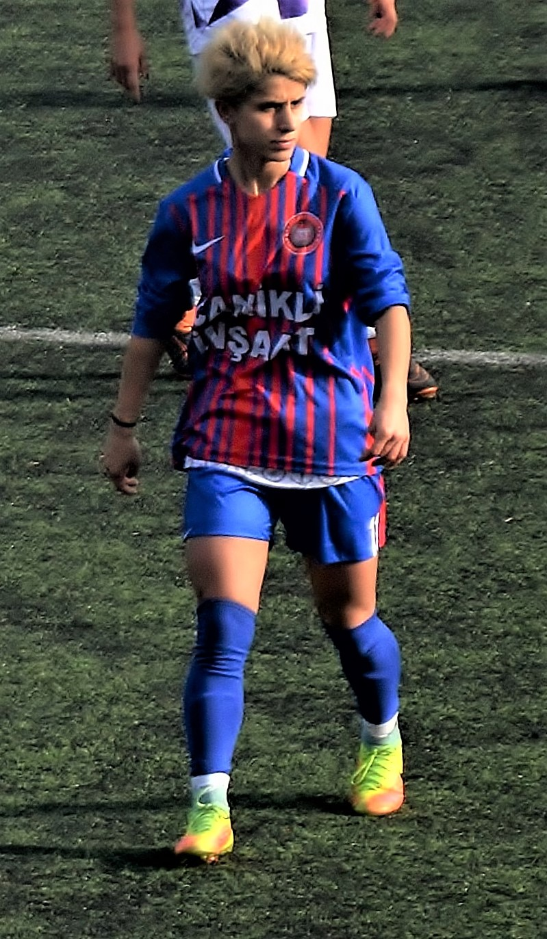 Fatma Ataş of Fatih Vatan Spor in the 2017-18 Turkish Women's First League.